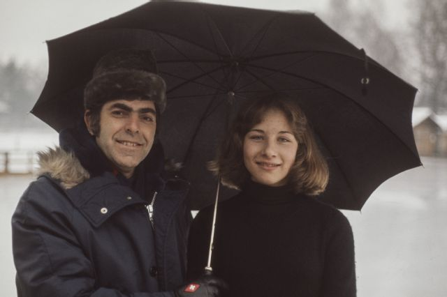 Karin Iten, swiss ice skater, and Jan Hiermeyer, longtime swiss television commentator, pictured in 1973, the year when Iten won the Bronze medal at the European Figure Skating Championships